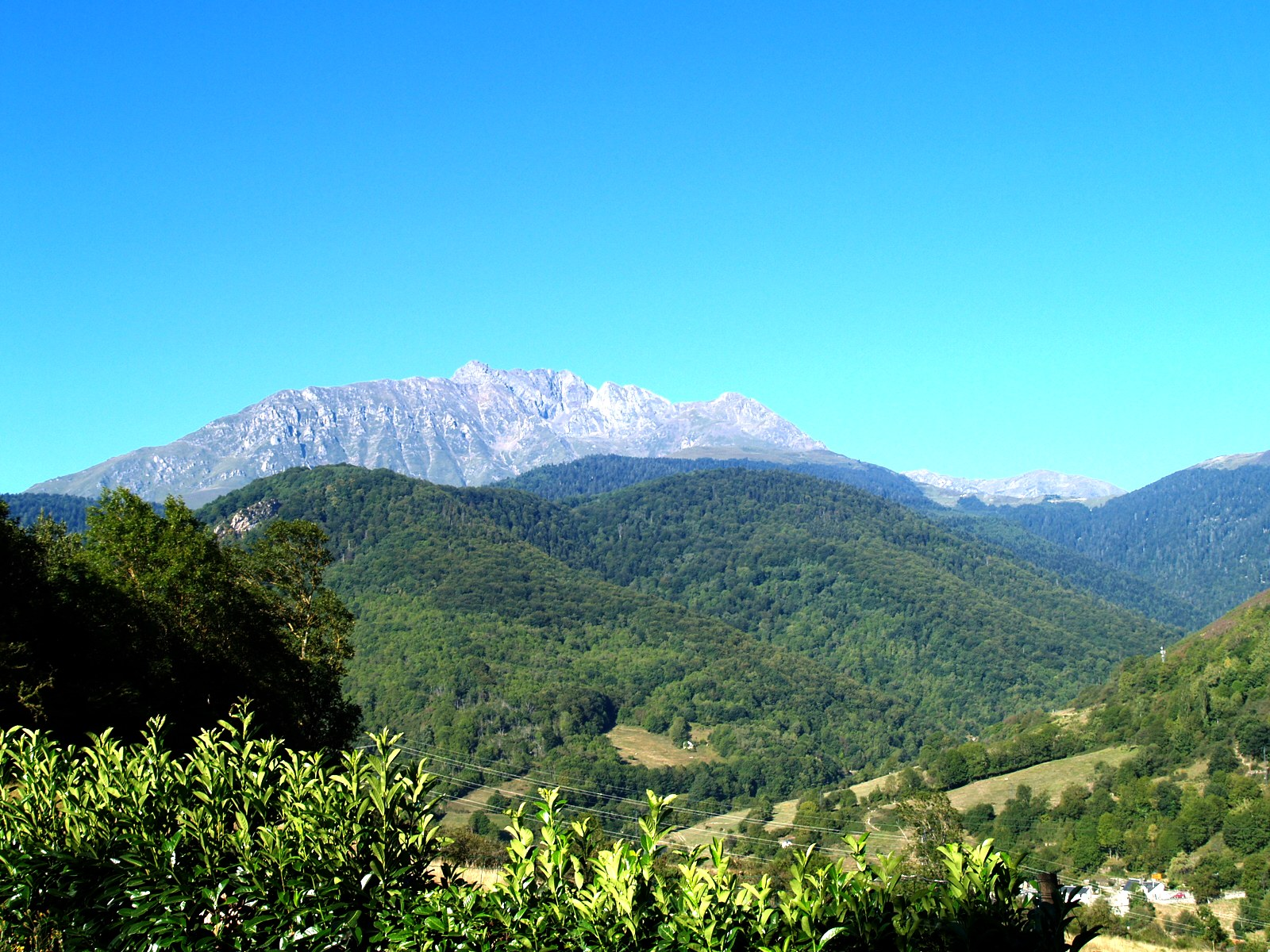 North flank of the Arbizon, viewed from the tiny hamlet of Pailhac, at the other side of the Aure valley. To the right, the little known pass road of the Hourquette d'Ancizan (1538m) can be seen, albeit barely, and behind it, in the distance, the top of the Soum de Coste Oueillère (2453m).